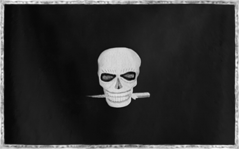 Reconstruction of the flag of the Italian Blackshirts, inspired by a video of a co-production of IWC Mediab with other European filmmakers, including Italy Polivideo, Channel 5 and Discovery Europe.